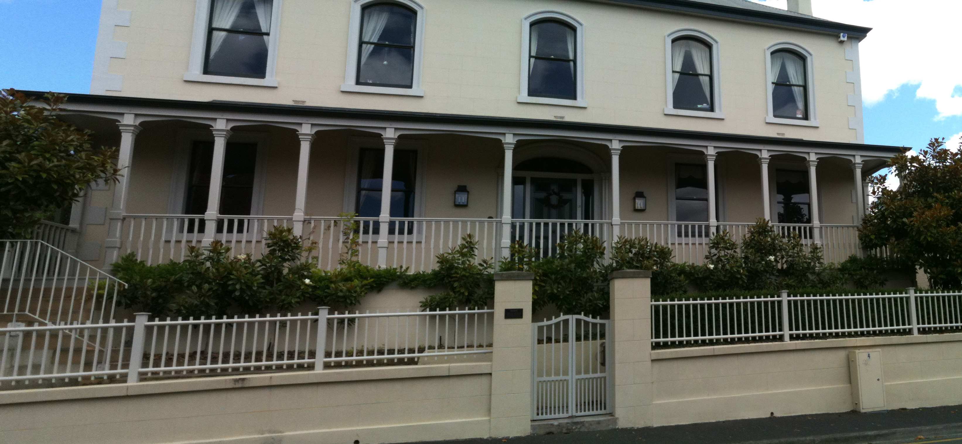 Taken in Battery Point, Tasmania. A plaque next to the front gate says the house is named "Rosebank" and is "the home of Andrew Inglis Clark"